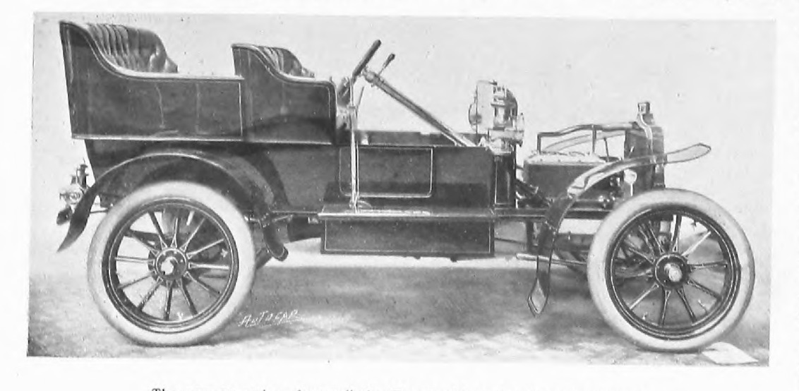 1905 Rover 10-12hp 4-cylinder car without engine bonnet